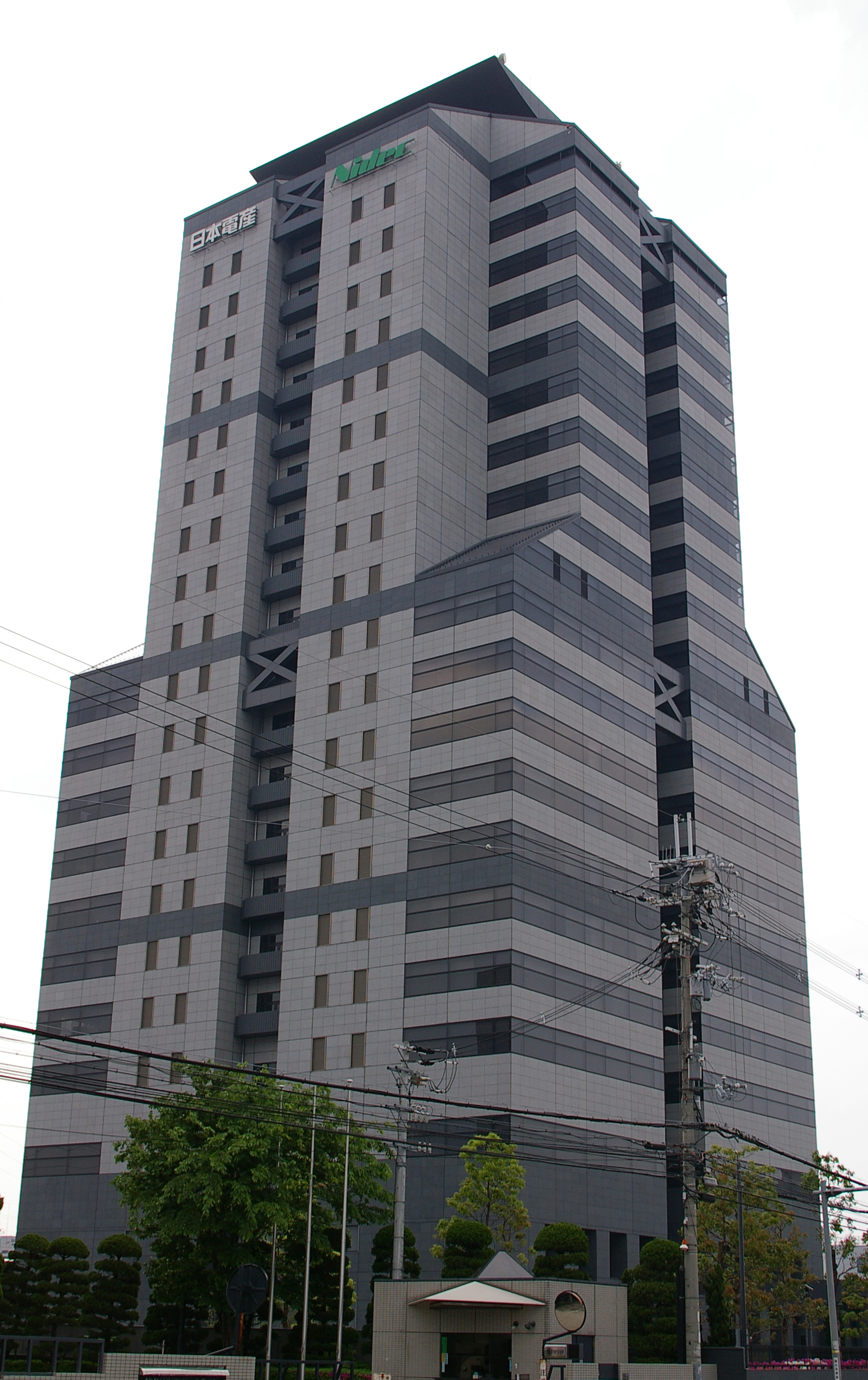 Photograph of the headquarters and Central Technical Laboratory building, NIDEC Corporation, in Minami-ku, Kyoto, Kyoto Prefecture, Japan.